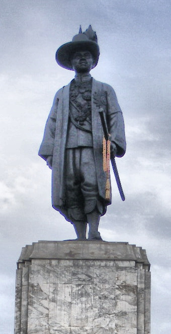 Monument of King Rama VII at Sukhothai Thammathirat Open University